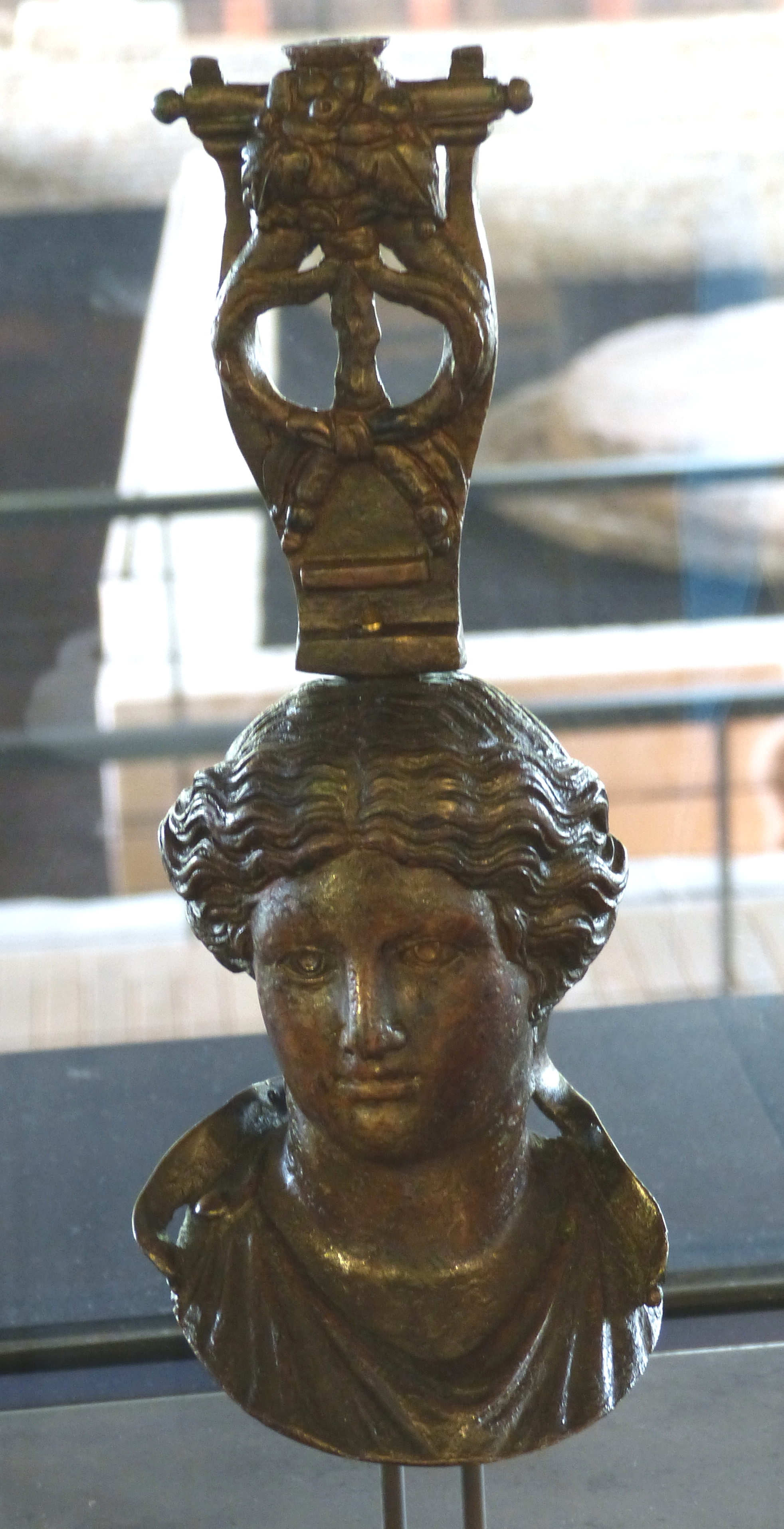 Périgueux ( Dordogne ). Vesunna-Museum: Bronze bust of pantheistic deity from Périgueux.